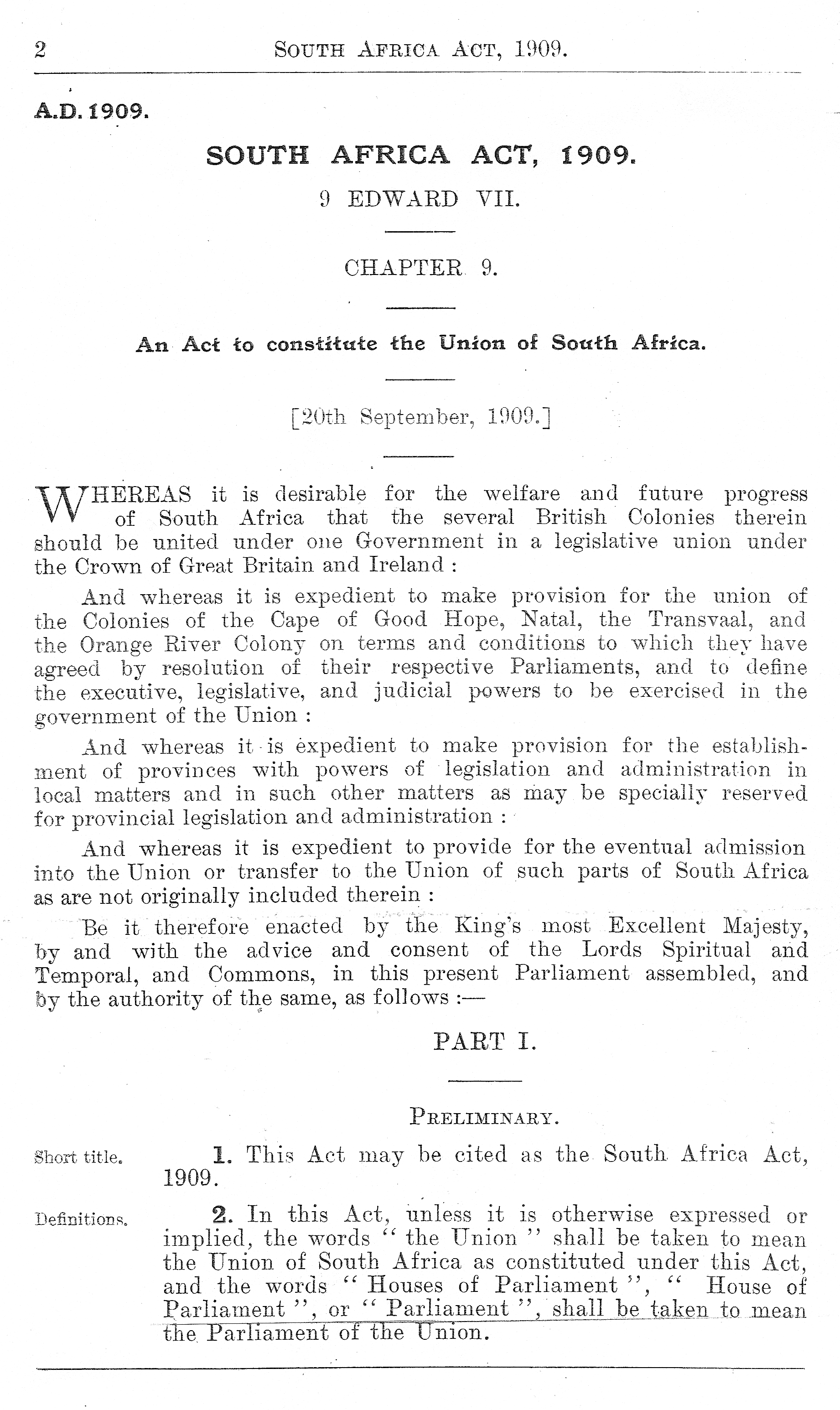 First page of the text of the South Africa Act 1909 from the official South African statute-book for 1910/11.